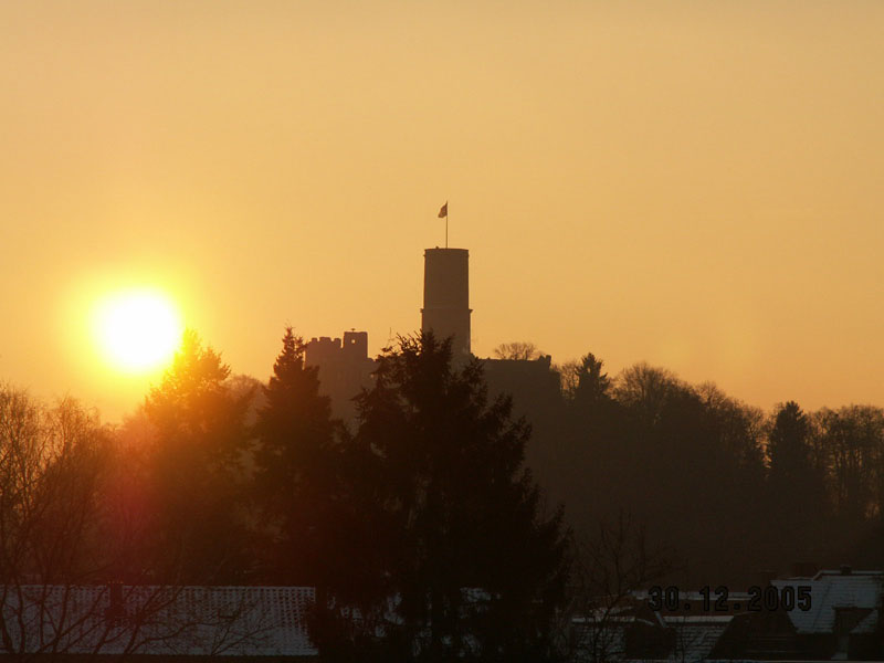 Picture of the Burg in Bad Godesberg in Bonn Germany at Sunrise. For other pictures and higher resolution author sander thillart